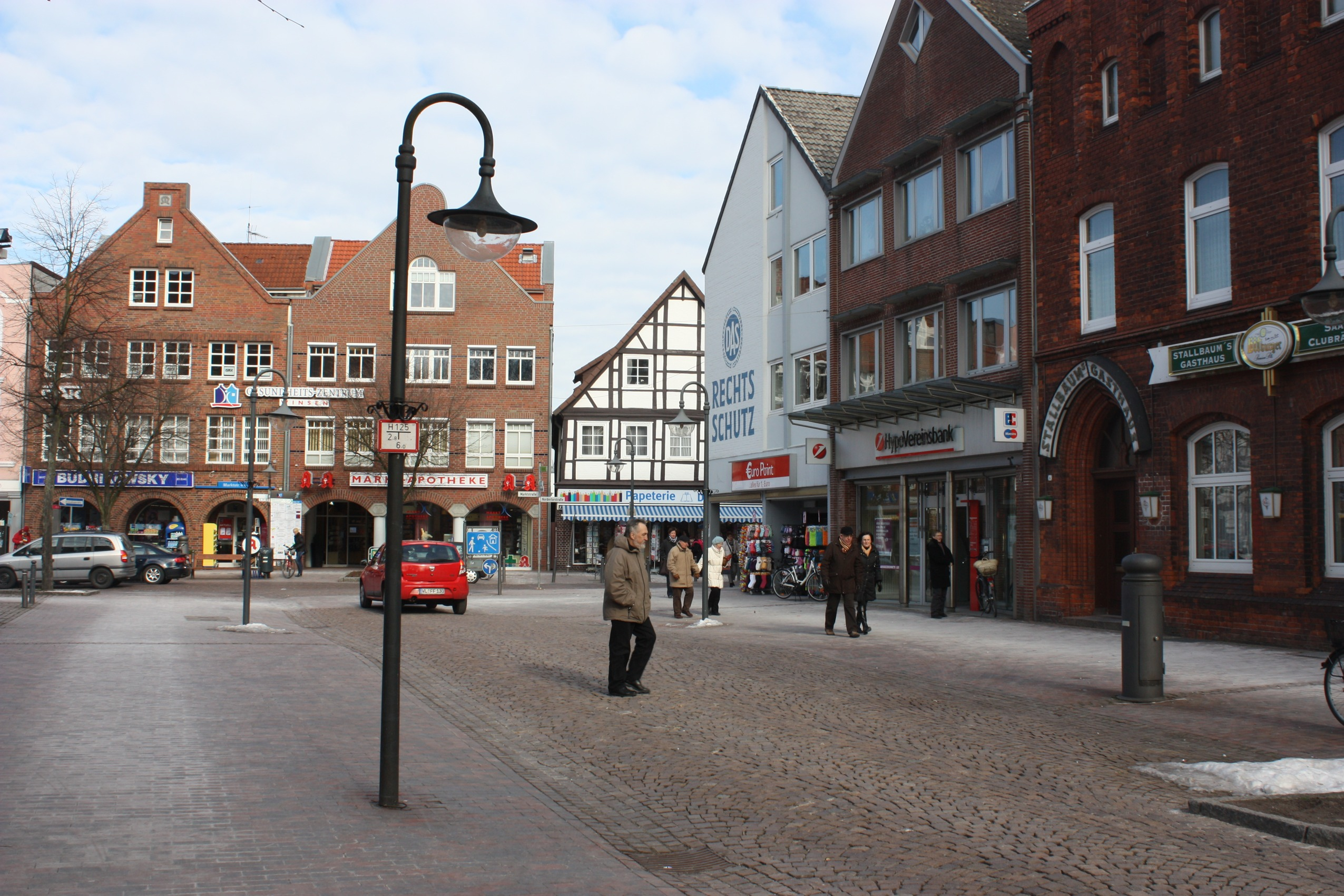 Winsen (Luhe), the town square